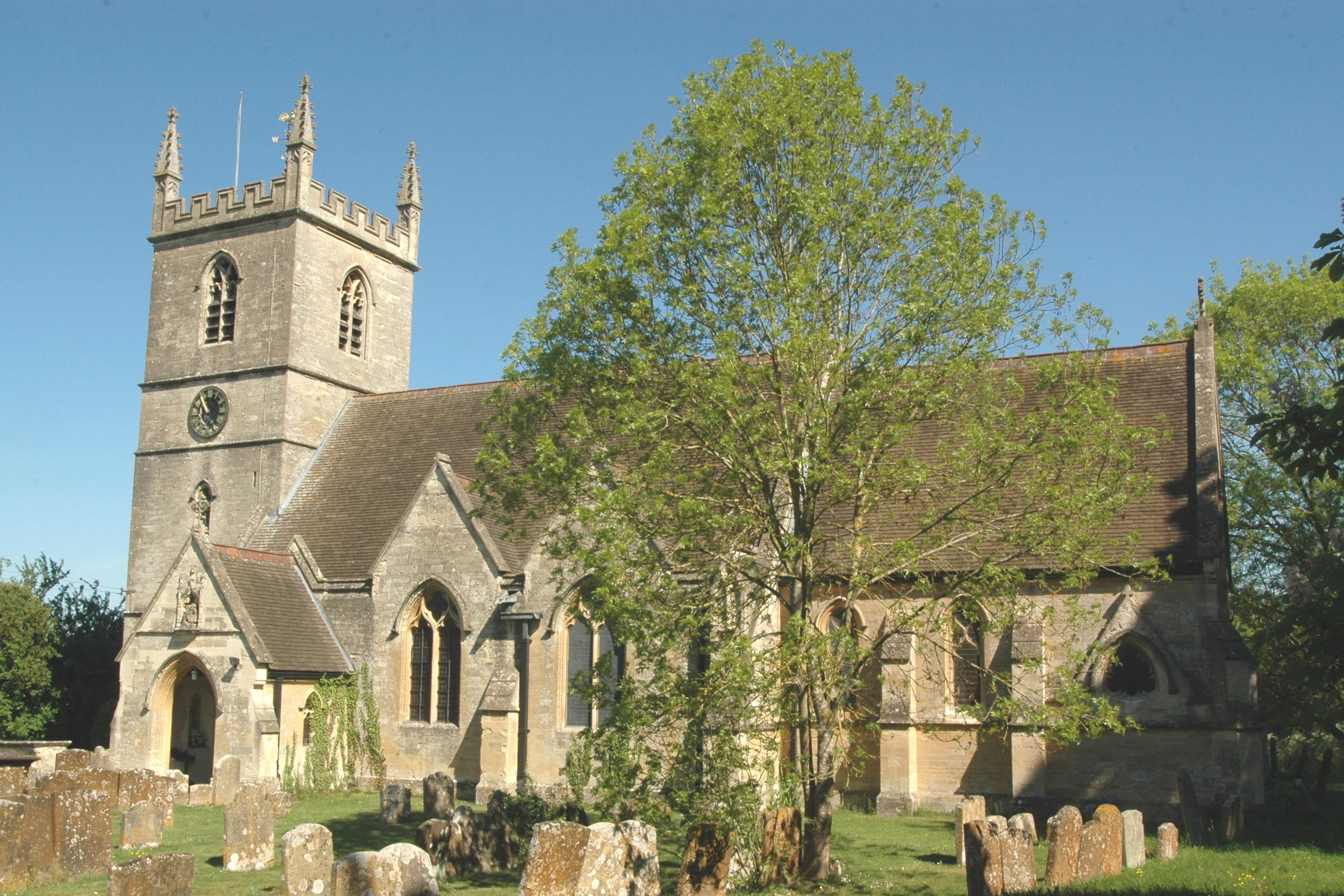 Church of England parish church of St Martin, Bladon, Oxfordshire, viewed from the south